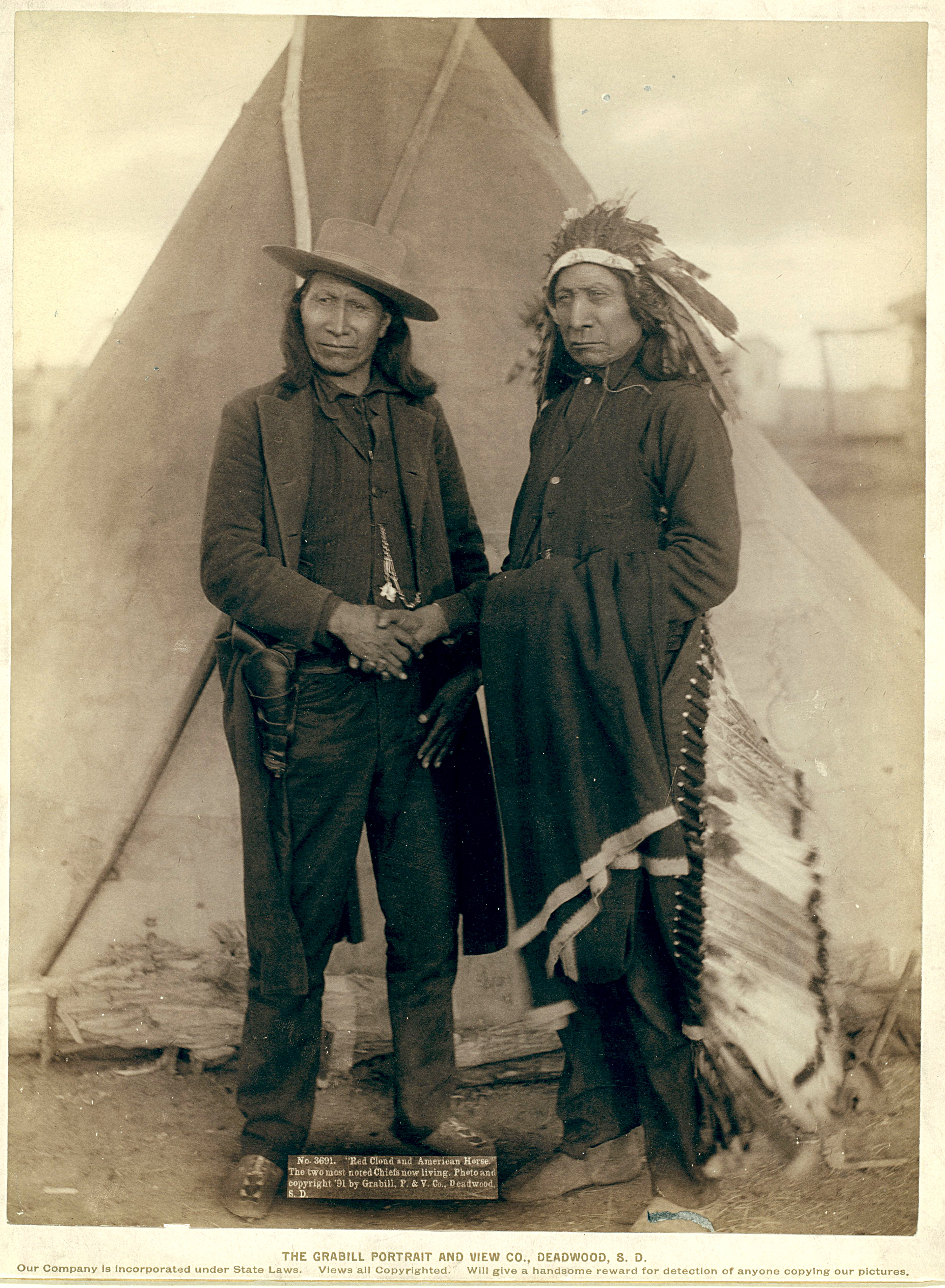 Original title "Red Cloud and American Horse." The two most noted chiefs now living Two Oglala chiefs, American Horse (wearing western clothing and gun-in-holster) and Red Cloud (wearing headdress), full-length portrait, facing front, shaking hands in front of tipi--probably on or near Pine Ridge Reservation.